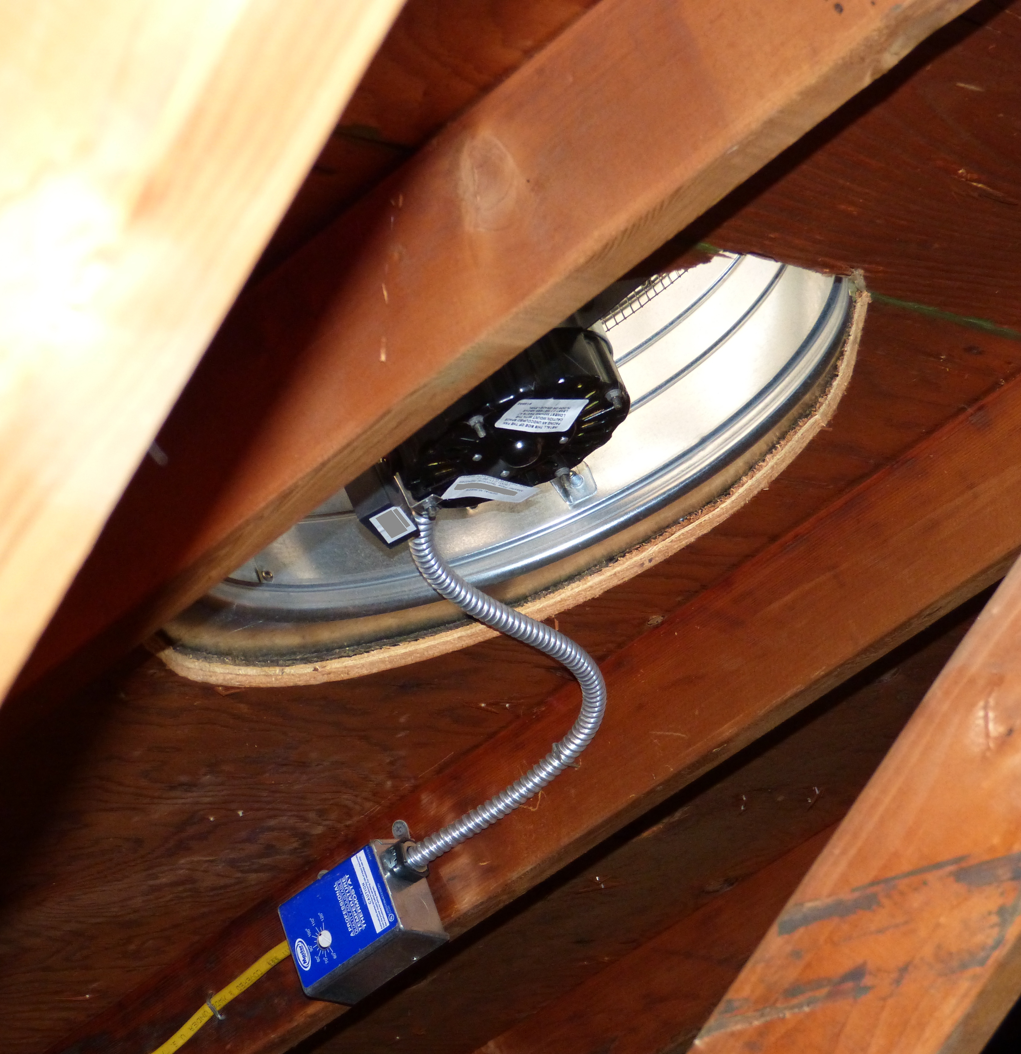 An attic fan installed underneath a roof. The fan is wired to a thermostat box on the nearby rafter.